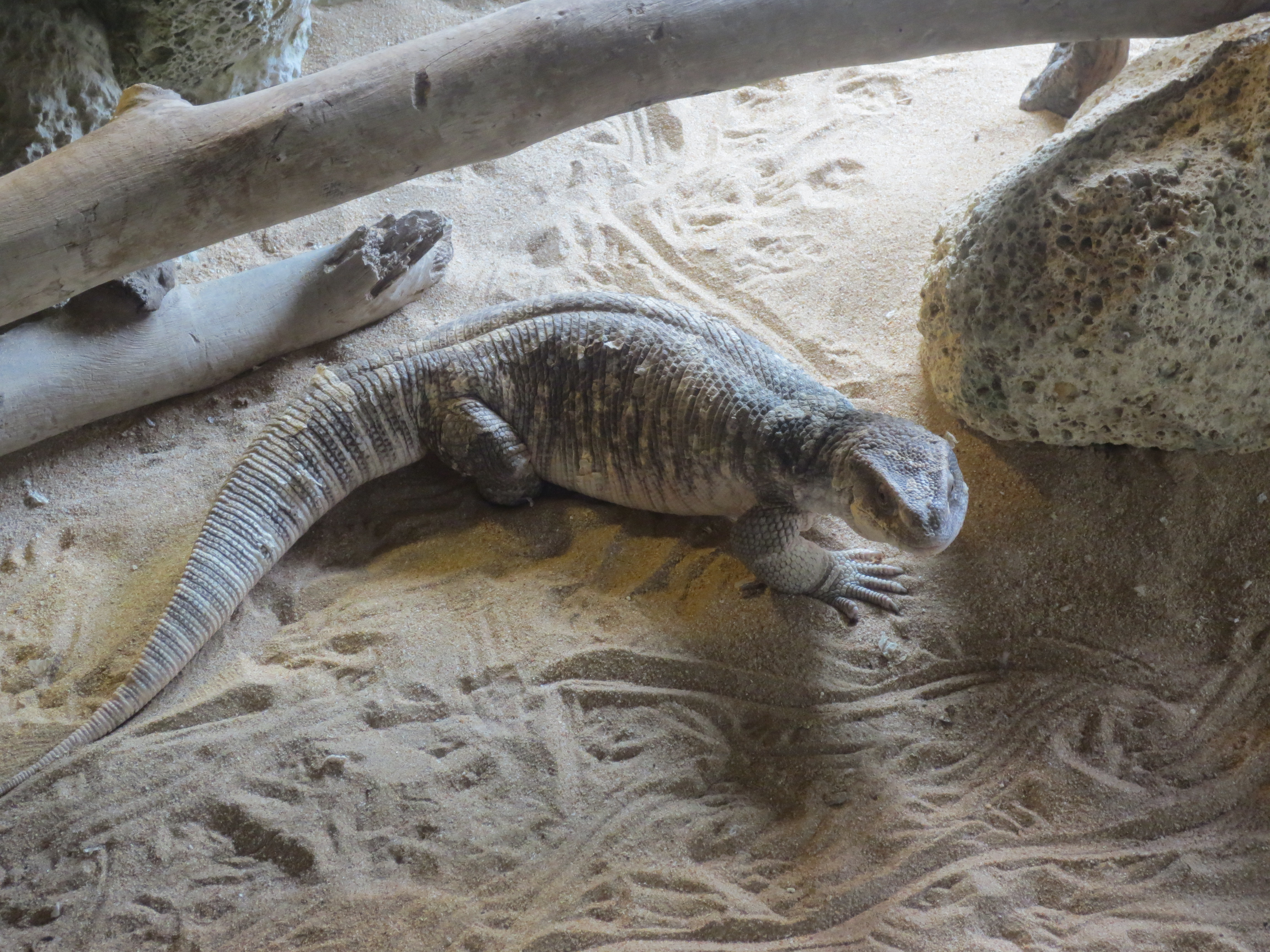 Giant lizard specie from the Sahel belt of northern Africa, captive in the terrarium of Loro Parque zoo, Tenerife (Spain).